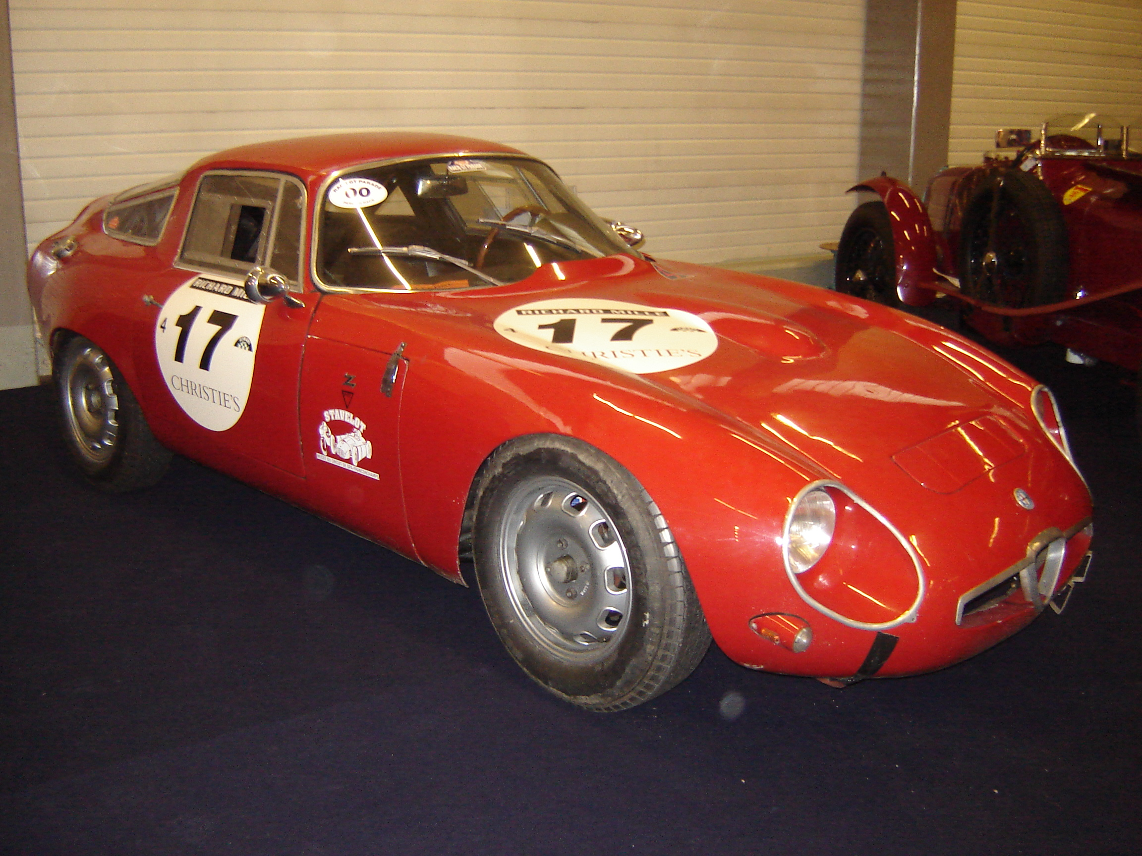 Alfa Romeo Giulia TZ (Tubolare Zagato). Picture taken at Flanders Collection Cars, Flanders Expo, Gent, Belgium